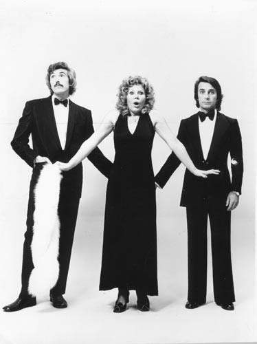 Rolo Puente- Thelma del Río y Santiago Bal- artístas argentinos